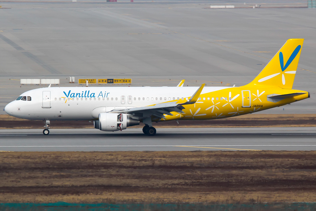 Vanilla Air Airbus A320 taxiing at Seoul Incheon International Airport. This was the first flight into the South Korean capital.